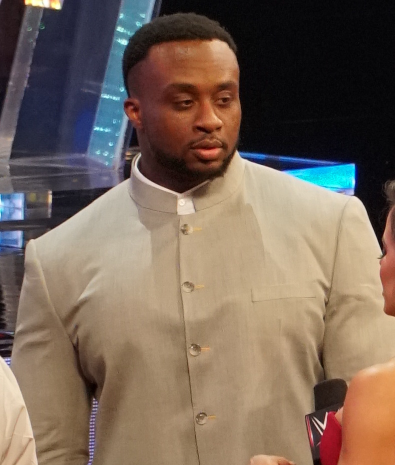 NOLA 2018 - WWE HOF 2018 WWE Hall of Fame (2018) was the event that featured the introduction of the 19th class to the WWE Hall of Fame. The event was produced by WWE on April 6, 2018 from the Smoothie King Center in New Orleans, Louisiana. The event took place the same weekend as WrestleMania 34. The event aired live on the WWE Network, and was hosted by Jerry Lawler. ( Deux semaines a Nola pour la ville et pour WWE Wrestlemania XXXIV Two weeks Nola for the city and for WWE Wrestlemania XXXIV )